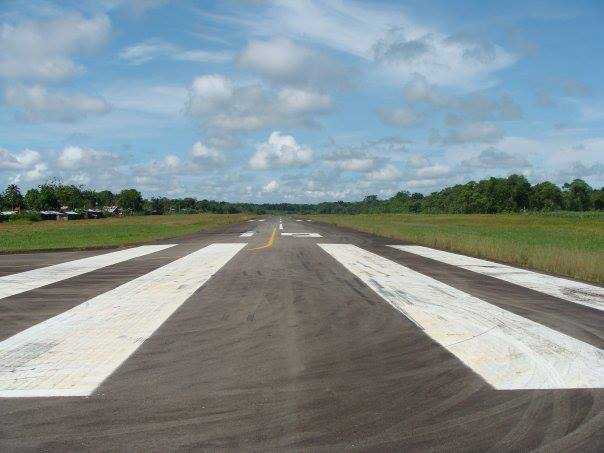 Guapi Airport